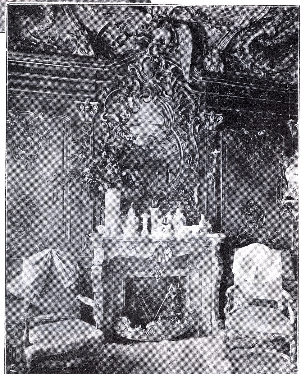 Haus Königsallee 13 in Düsseldorf, Kamin im Esszimmer, Esszimmer umgebaut durch Jacobs & Wehling (1862-1913).jpg